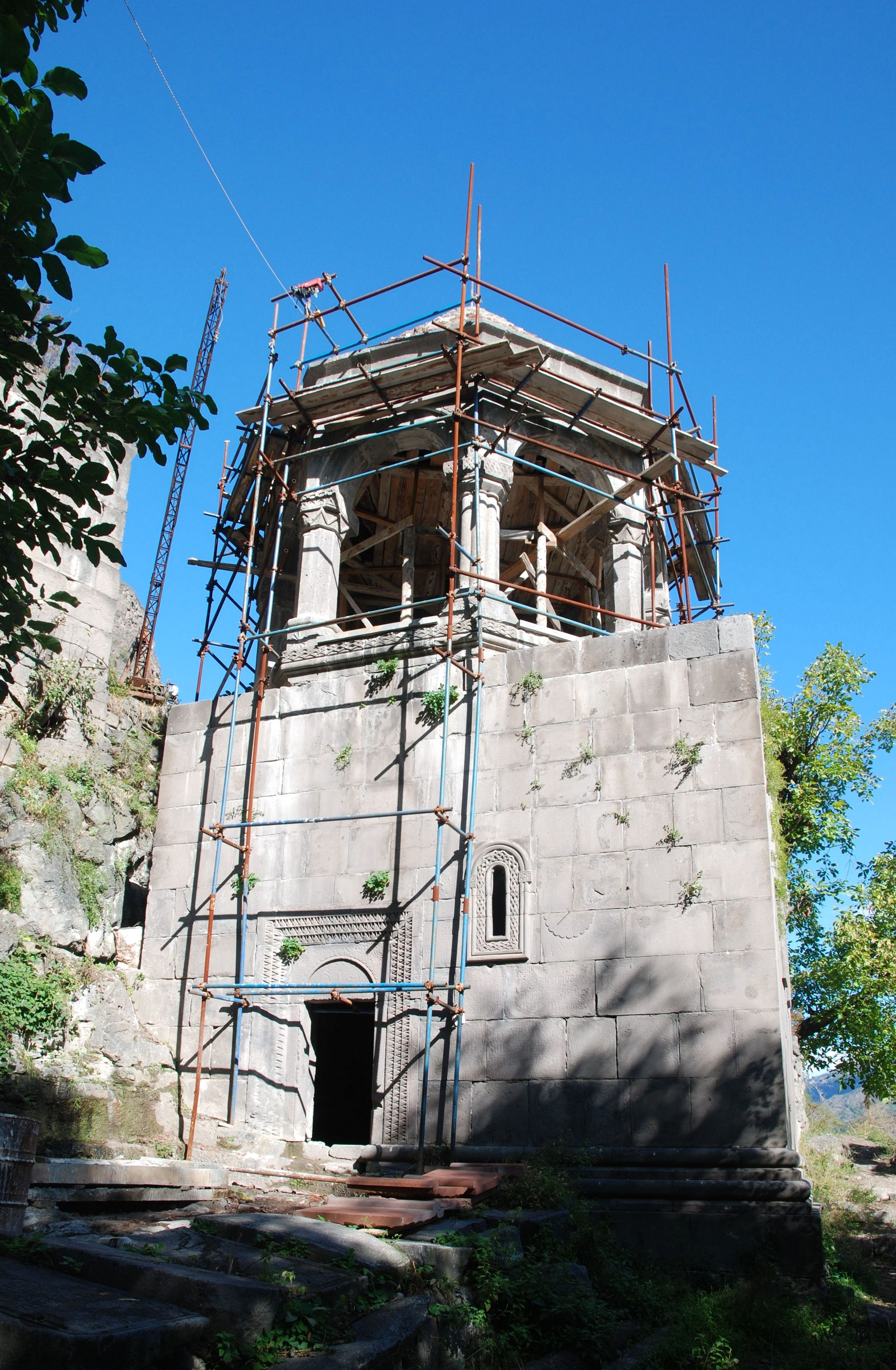 Kobayr, mausoleum with bell tower